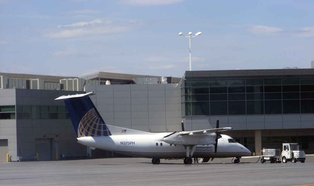 Continental Connection (CommutAir) De Havilland Canada DHC-8-202 Dash 8 at Wilkes-Barre/Scranton International